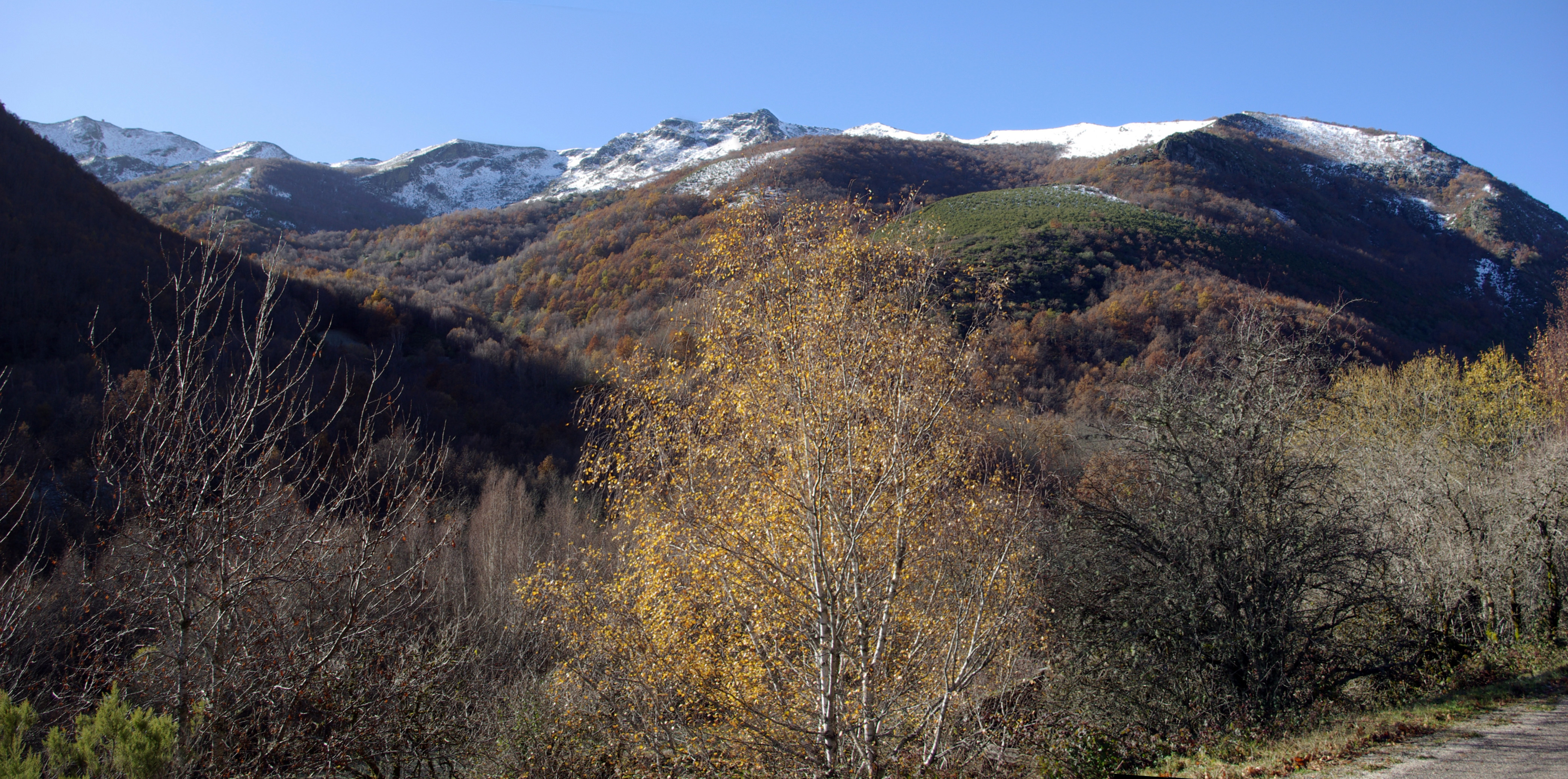 Ancares range and valley near Tejedo de Ancares (Candín, León, Spain)